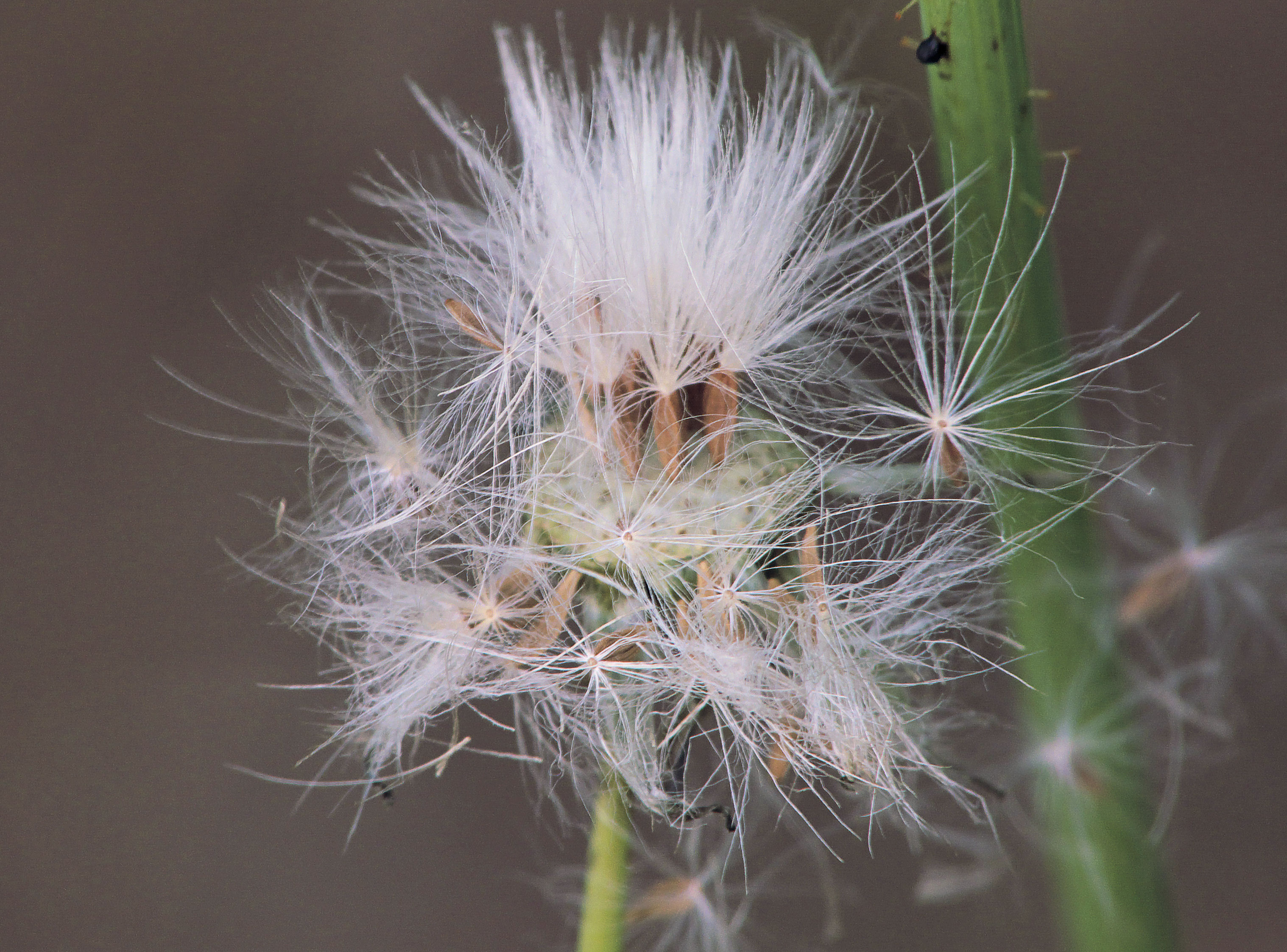 Sonchus oleraceus infrutescence